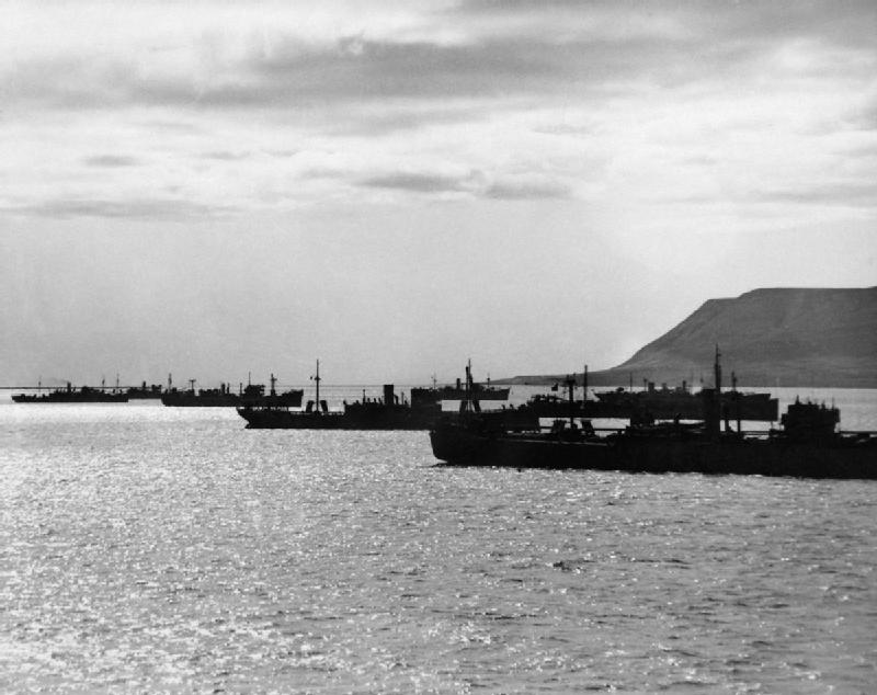 Merchant vessels assemble along the coastline near Hvalford, Iceland preparing to sail for Russia at dusk that evening. COMBINED BRITISH AND AMERICAN FLEET COVER RUSSIAN CONVOY. MAY 1942, ON BOARD HMS VICTORIOUS AT SEA AND AT HVALFJORD, ICELAND. Original description: The convoy will sail at dusk. A striking silhouette of the convoy at it's rendezvous, waiting for the order to sail. All these ships are loaded with vital war supplies for Russia. Comment : Possibly PQ 16: the date of photograph and presence of Victorious would be consistent with that.